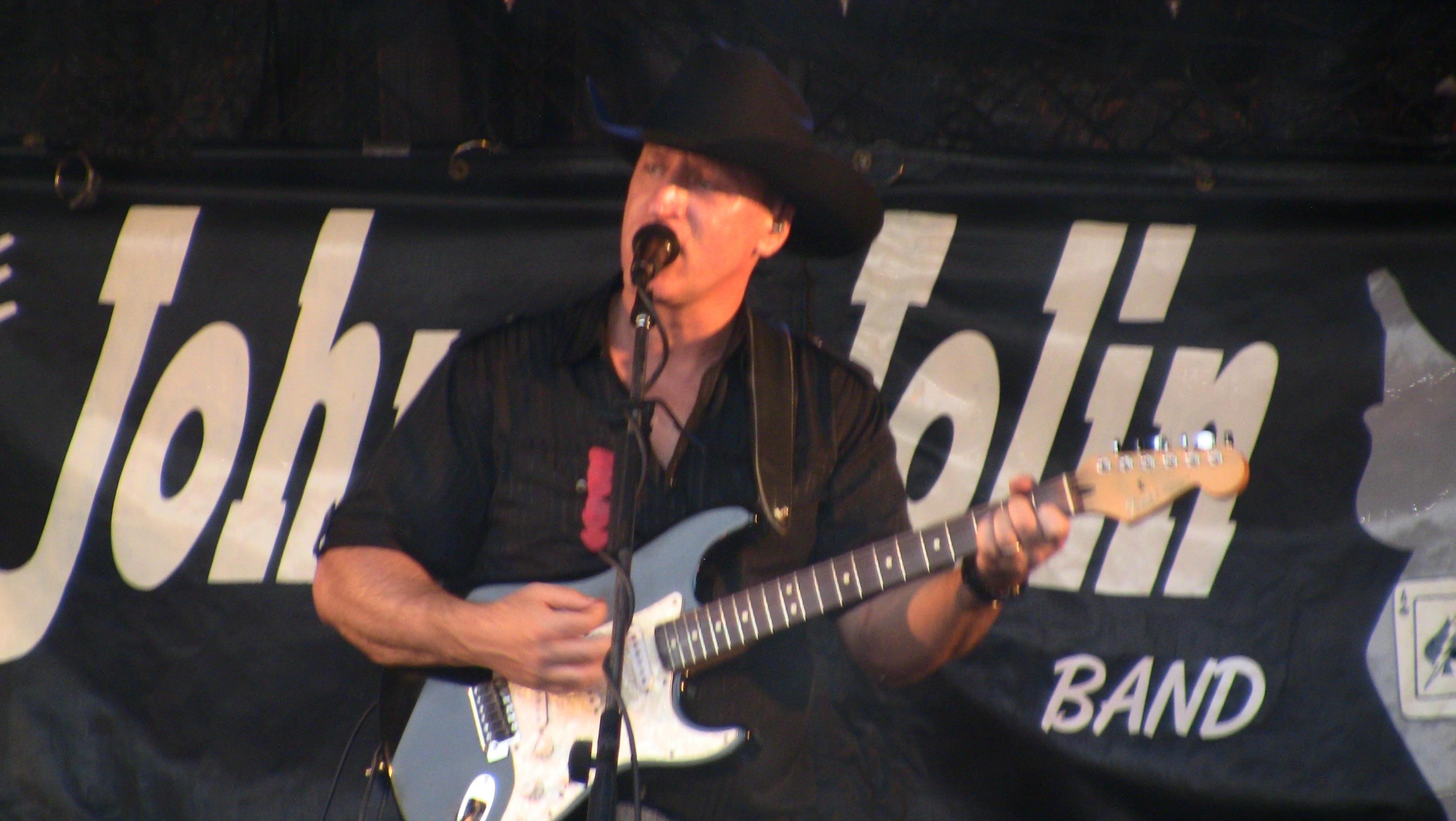 A photograph of Country Artist Johnny Jolin at a concert.